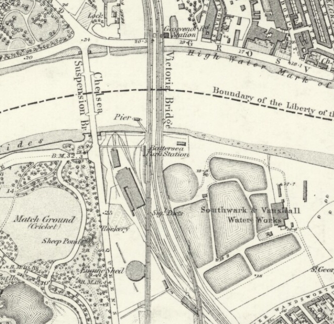 Battersea Park railway station (originally Battersea railway station). The station was opened in 1860 and closed in 1870.